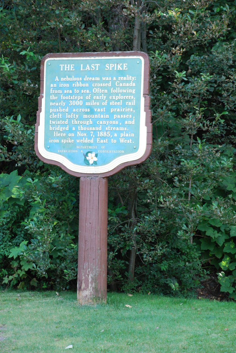 This is a plaque near the site of the Last Spike. Taken on August 13, 2007. Mike Helms 19:20, 4 September 2007 (UTC)